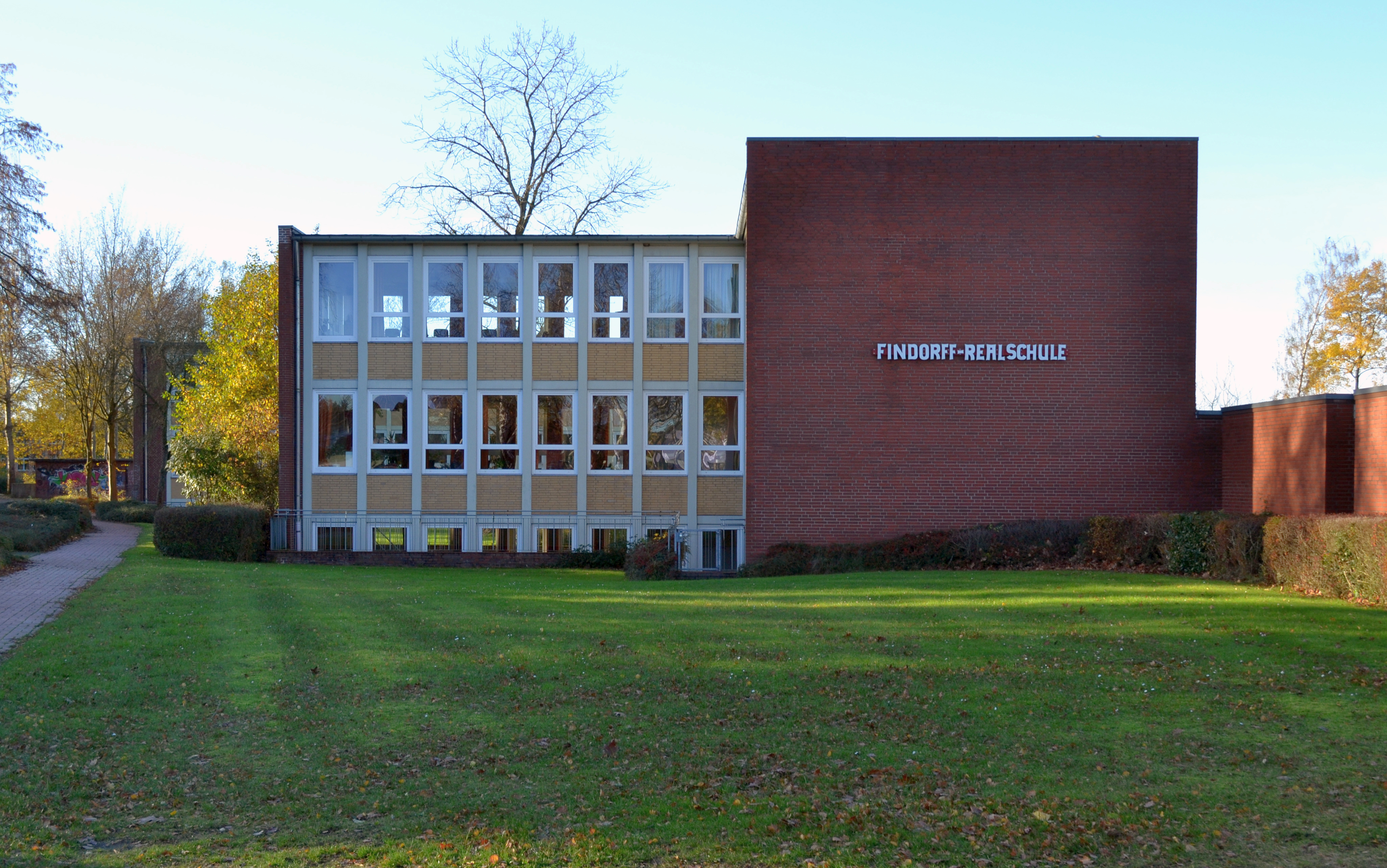 This image shows one of the towers with Schoolrooms of the Findorff-Realschule Bremervörde.